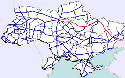 map of motorway M03 in Ukraine